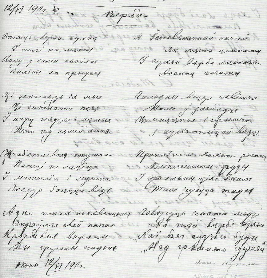 Replica of a manuscript of Yanka Kupala's poem 'Pussy-Willow' (1911, Akopy) Беларуская (тарашкевіца): Рэпрадукцыя рукапісу верша Янкі Купалы "Верба" (Акопы, 1911)